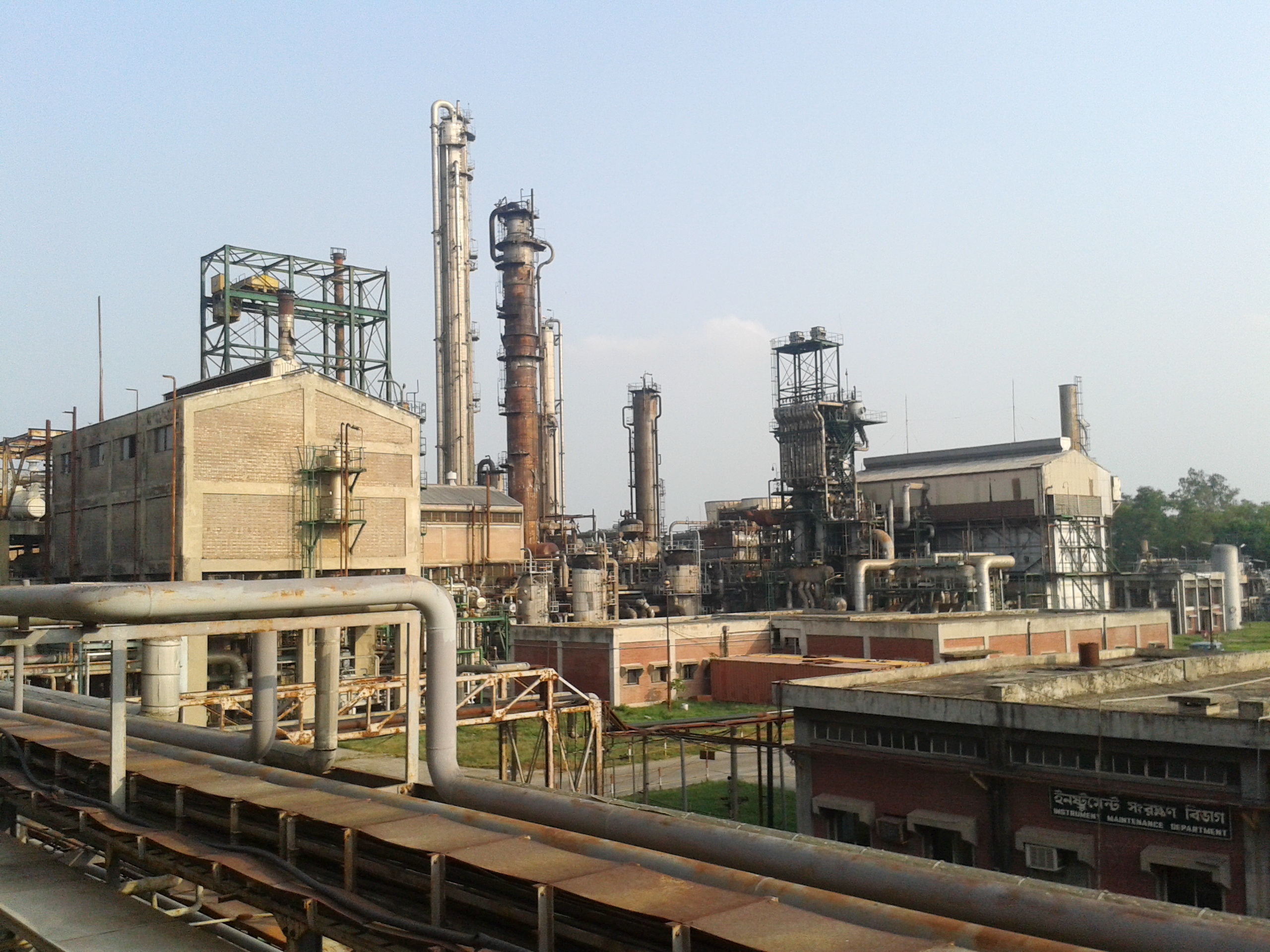 Urea Fertilizer Factory Limited (UFFL) - Methane to Ammonia to Urea process plant